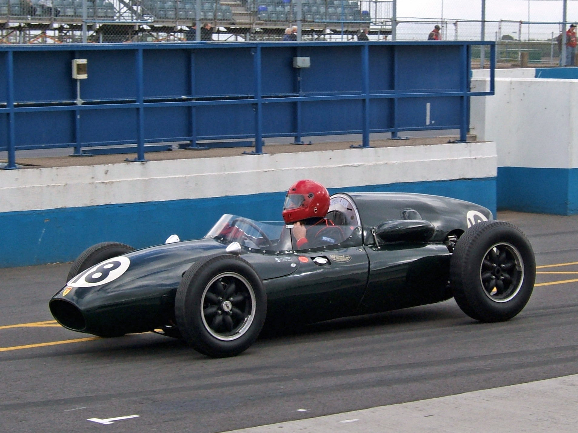 A Cooper T45 returns to the pits after practice for the Ron Flockhart Memorial Trophy race, during the VSCC SeeRed race meeting, Donington Park, September 2007.